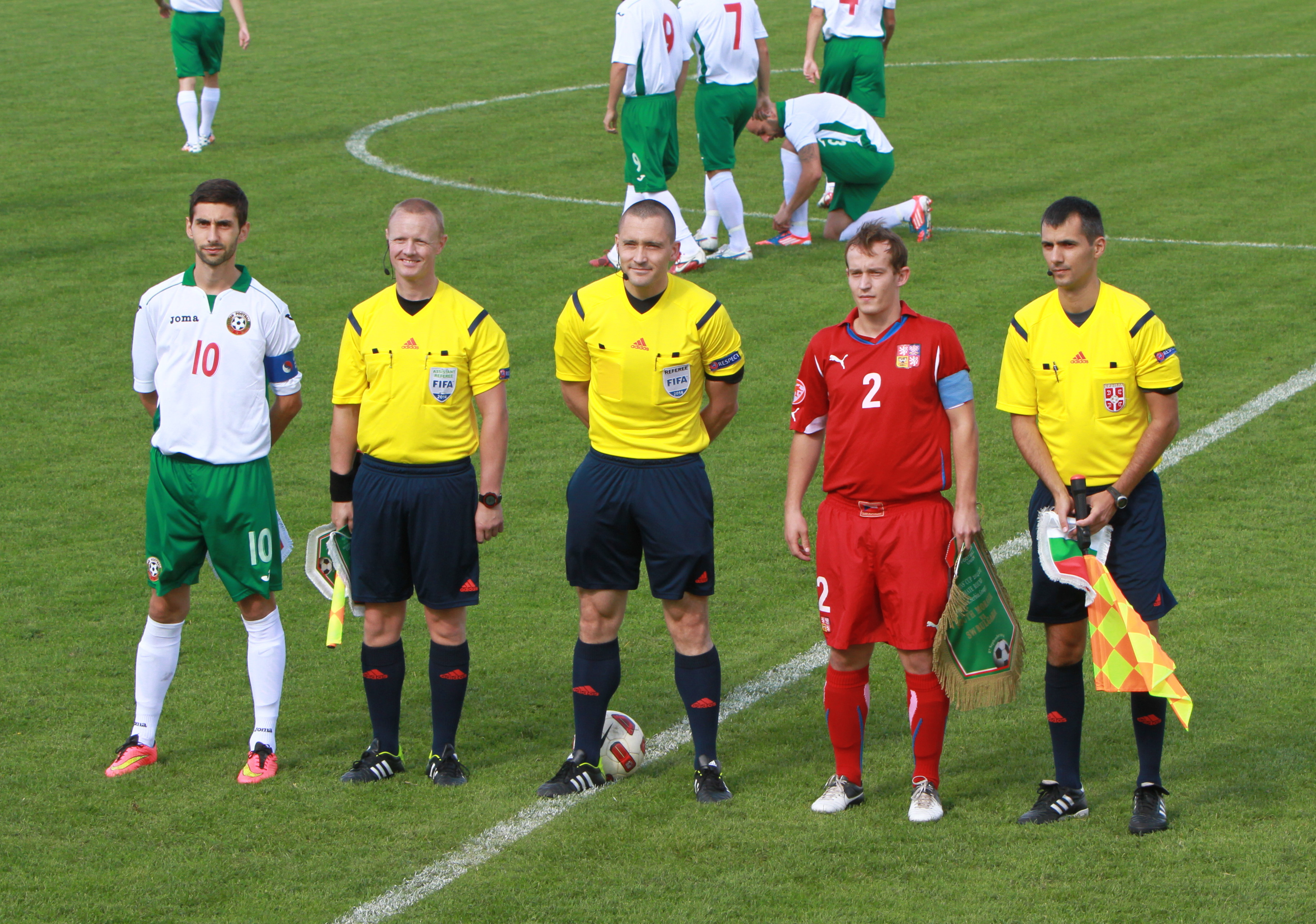 Hristo Bangeev (in white) with Bulgarian national football amateur team in the match against Czech Republic, 27-9-2014, Belgrade, Serbia.